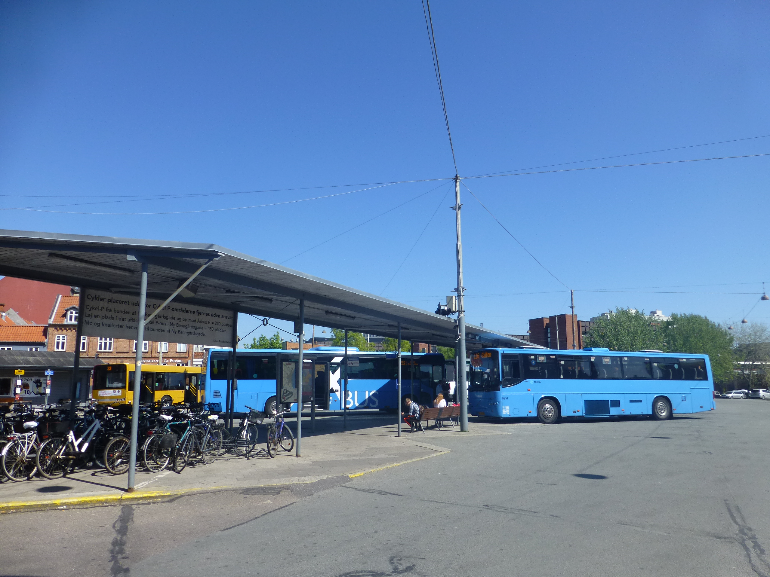 The bus station Aarhus Rutebilstation in Denmark.